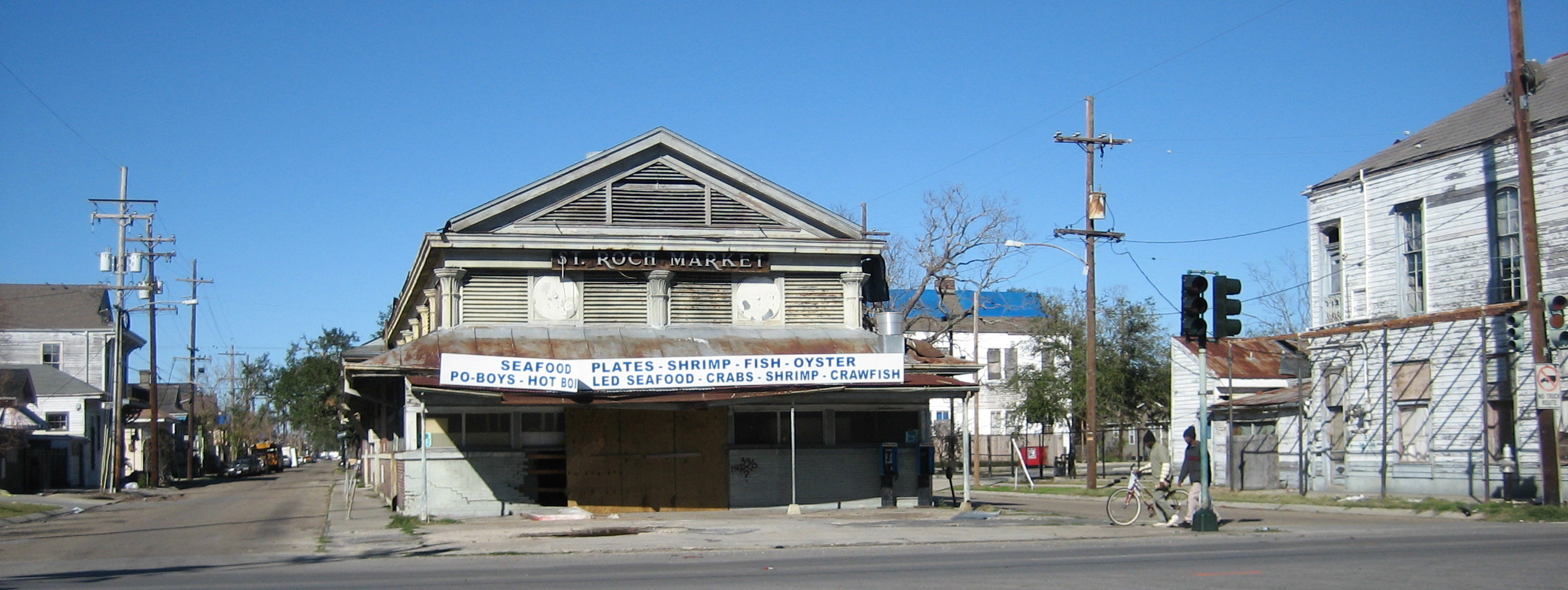 New Orleans: Saint Roch Market, long known for its seafood. Boarded up in the aftermath of Hurricane Katrina